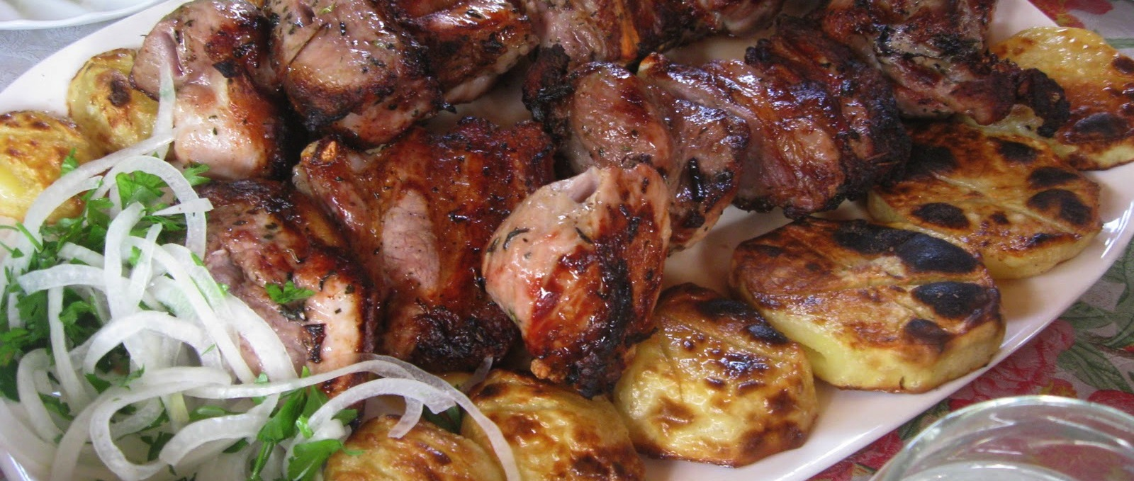 Armenian best barbecue